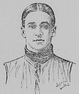 Virginia football running back Virginius Dabney